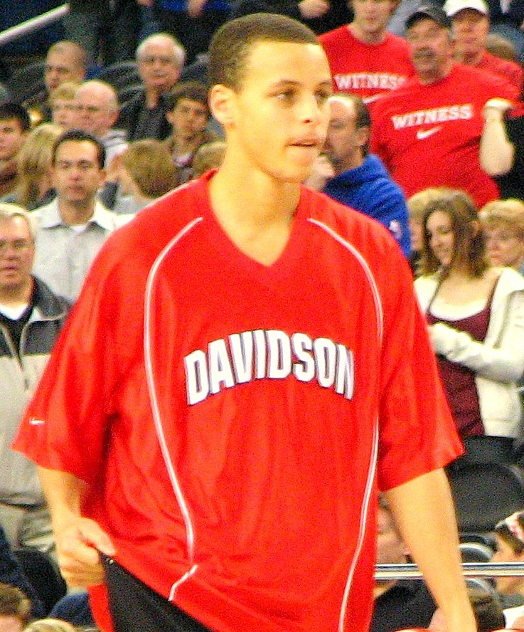 Davidson star Stephen Curry warms up for the Midwest Regional final against Kansas at Ford Field. This file has been extracted from another file: Stephen Curry Davidson.jpg